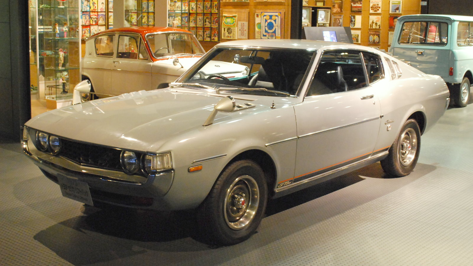 1st generation Toyota_Celica LB